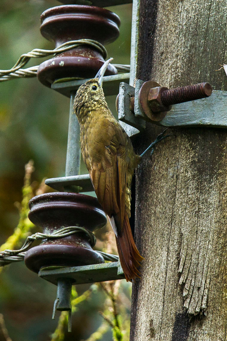 Olive-backed woodcreeper (Xiphorhynchus triangularis) - Ecuador_S4E3621